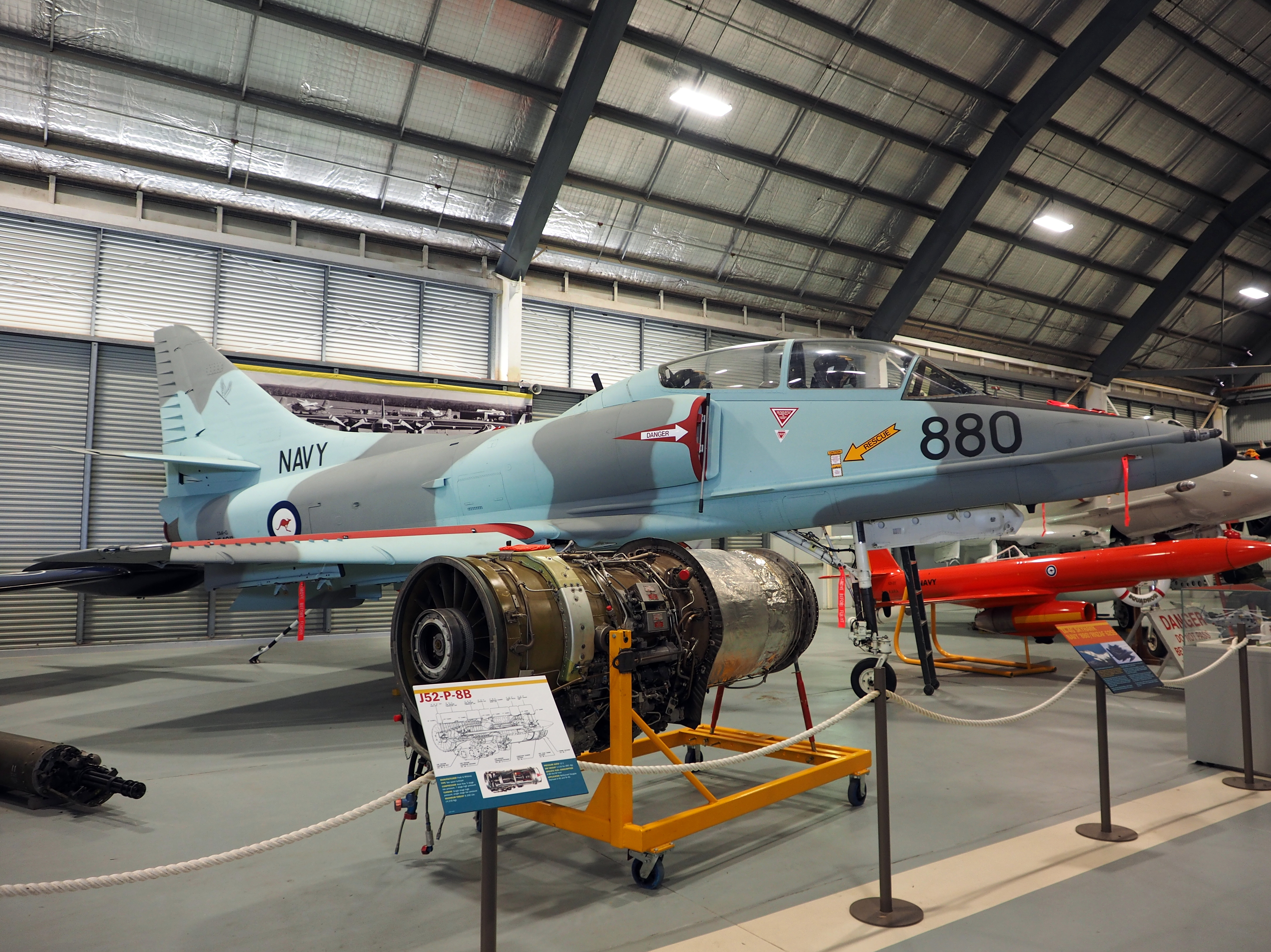 McDonnell Douglas A-4G Skyhawk "buzz" number 880 at the Fleet Air Arm Museum. This aircraft was operated by the Royal Australian Navy and Royal New Zealand Air Force